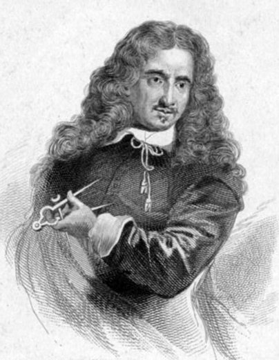 Danish sculptor Caius Gabriel Cibber (1630-1700) by William Camden Edwards (1777-1855) after an unknown original.